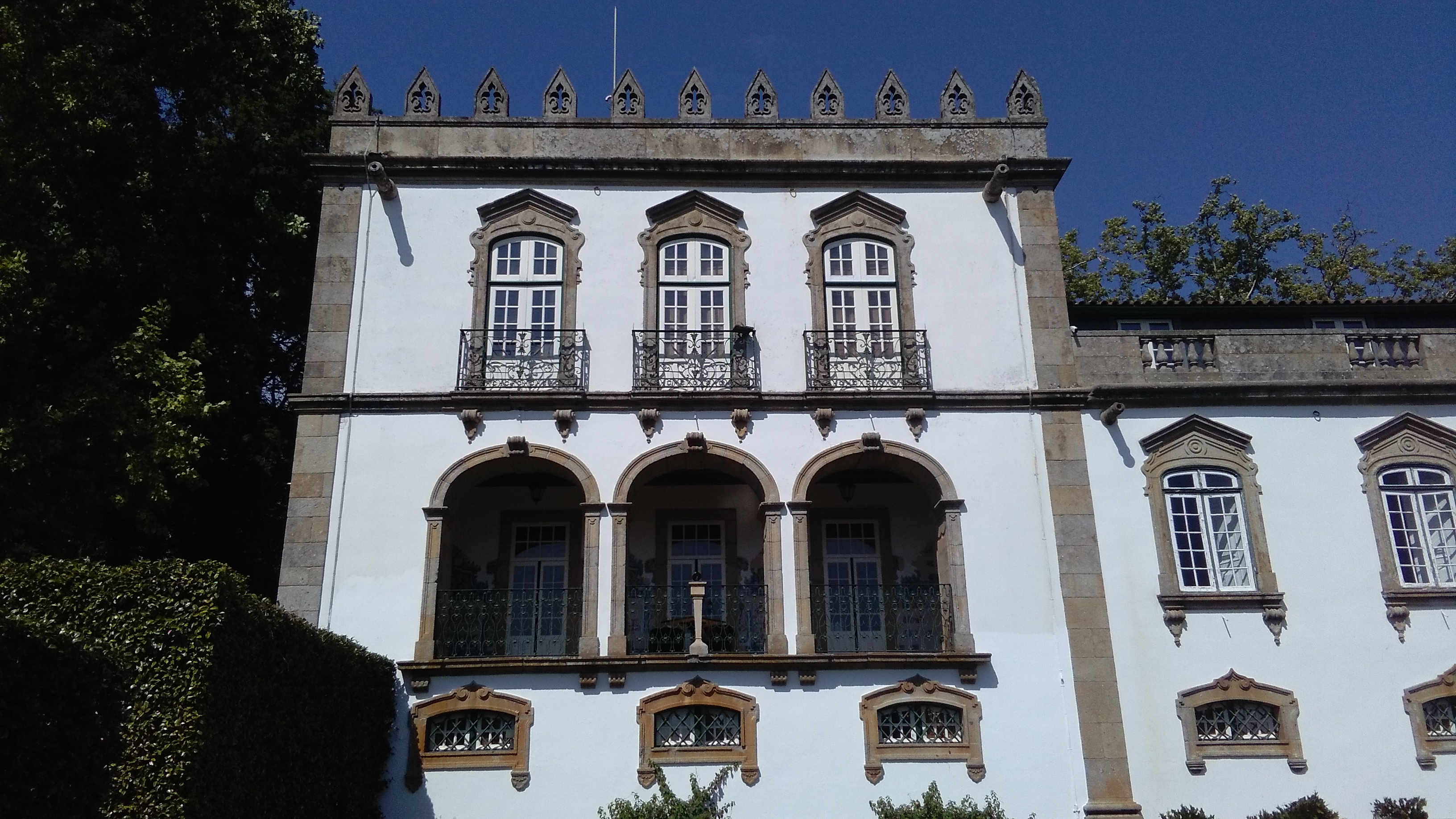 North tower of Casa da ínsua in Penalva do Castelo, Portugal.